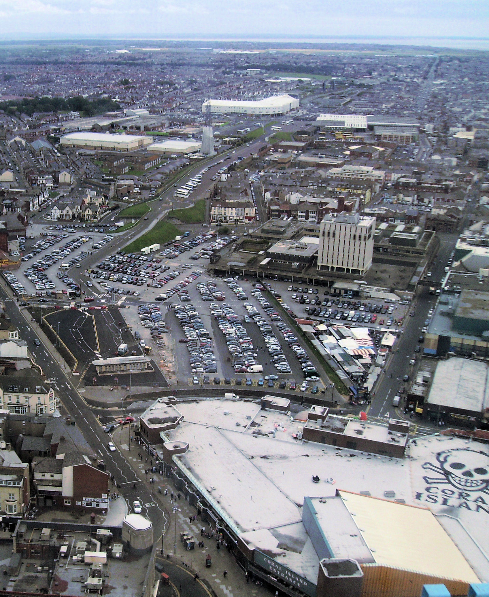 The site of Blackpool Central railway station which closed in 1964 and was demolished by 1973. The building and platforms covered almost all of the area in the bottom half of the picture, including the "Coral Island" building and the large car park behind it. The route of the dismantled railway tracks can be seen curving towards the top right of the picture. Photographed in 2009 from the top of Blackpool Tower.